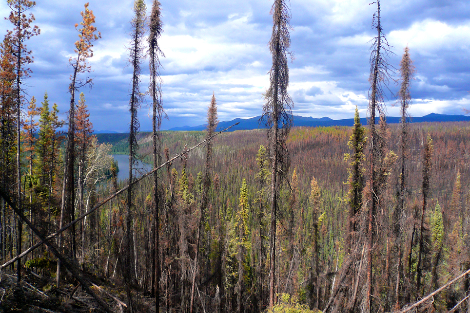 Forest near Frances River, Tuchitua, Campbel Highway, Yukon